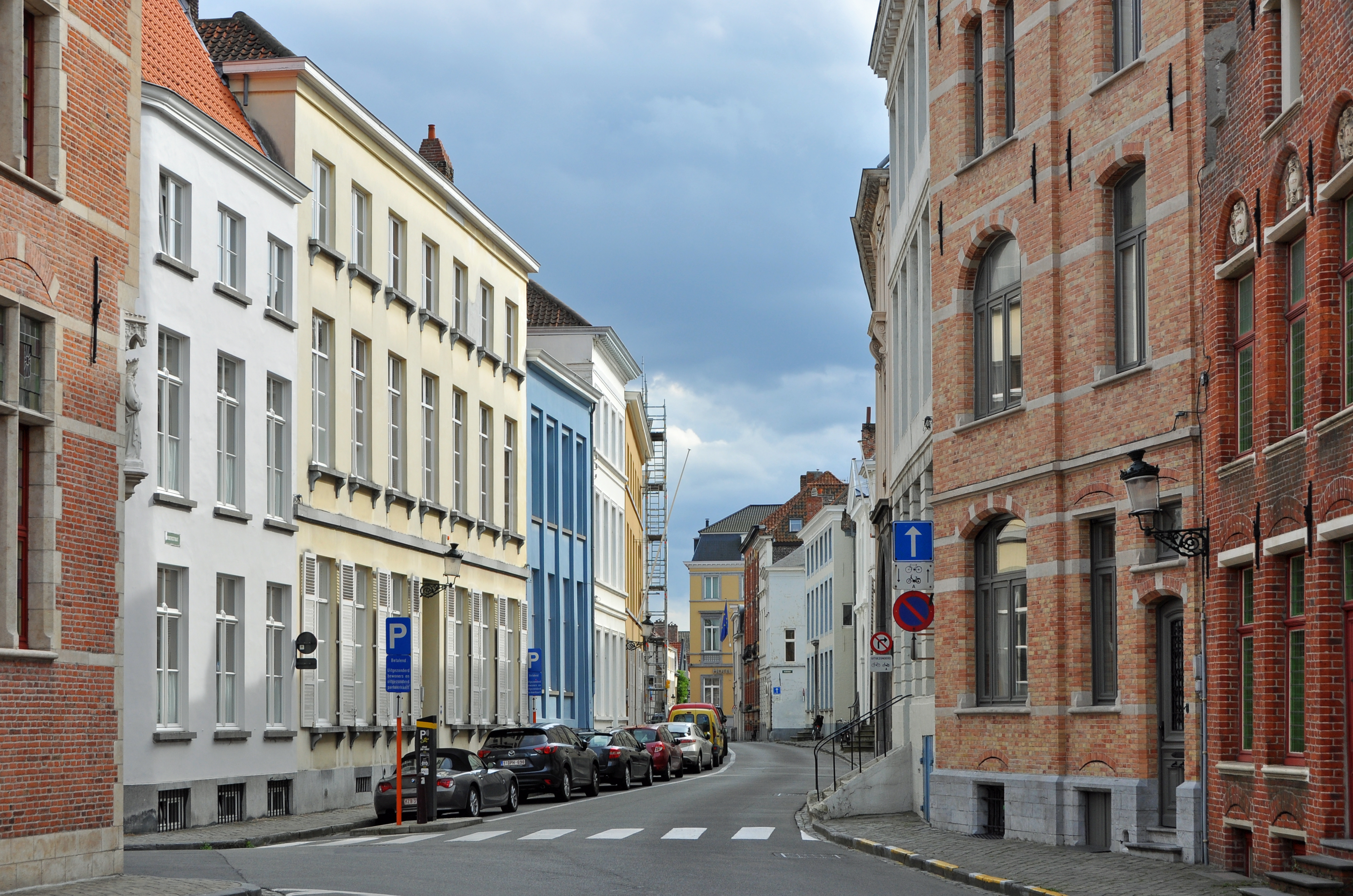 Bruges (Belgium): Riddersstraat